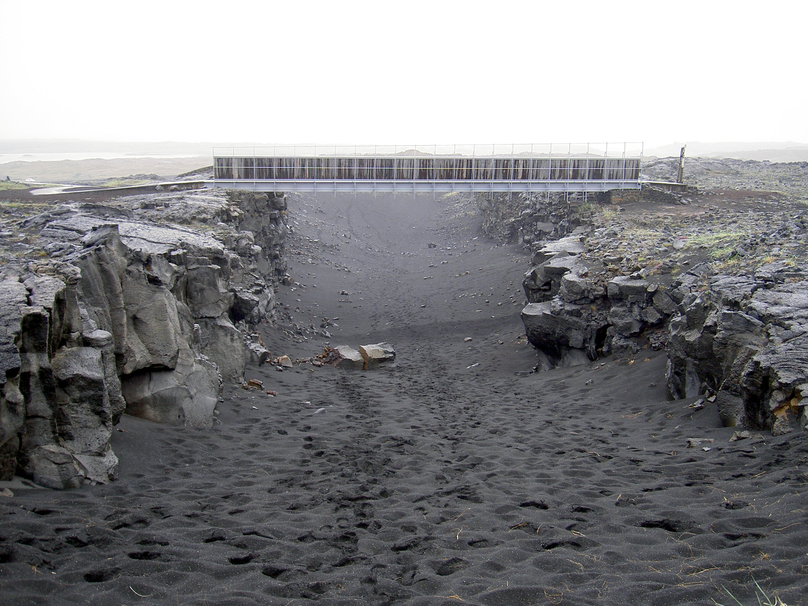 Leif the Lucky Bridge: Bridge between continents in Reykjanes peninsula, southwest Iceland across the Alfagja rift valley, the boundary of the Eurasian and North American continental tectonic plates.